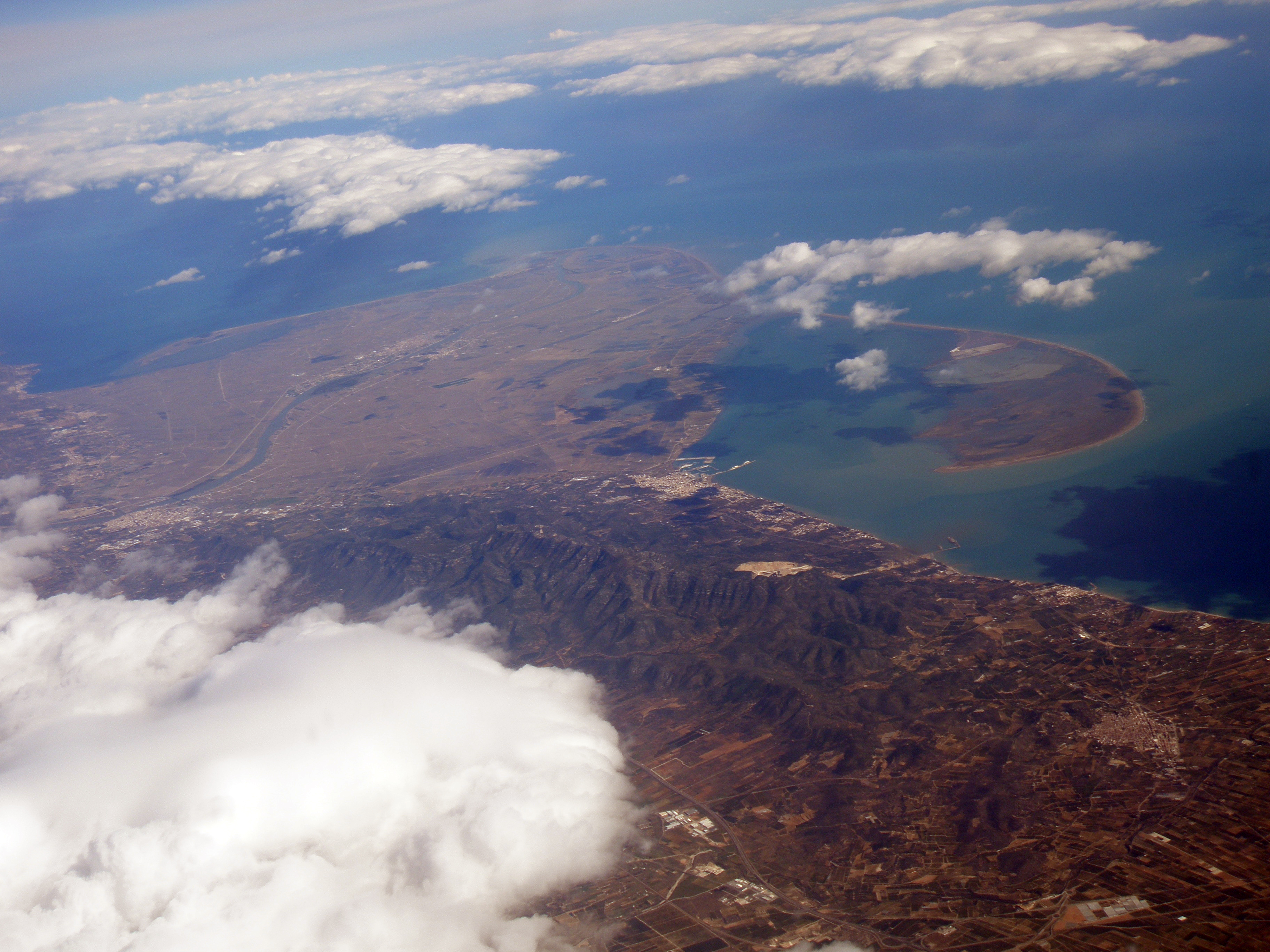 Ebro Delta from an aircraft.